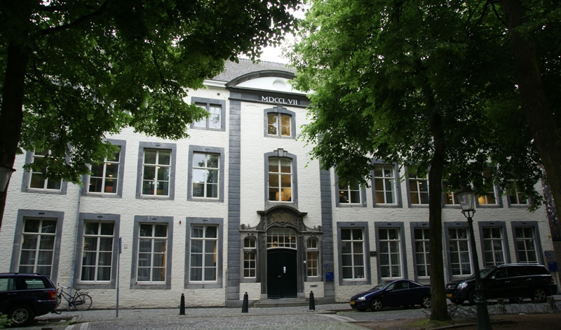 National monument no. 27028 - Grote Looiersstraat 17, Maastricht, The Netherlands